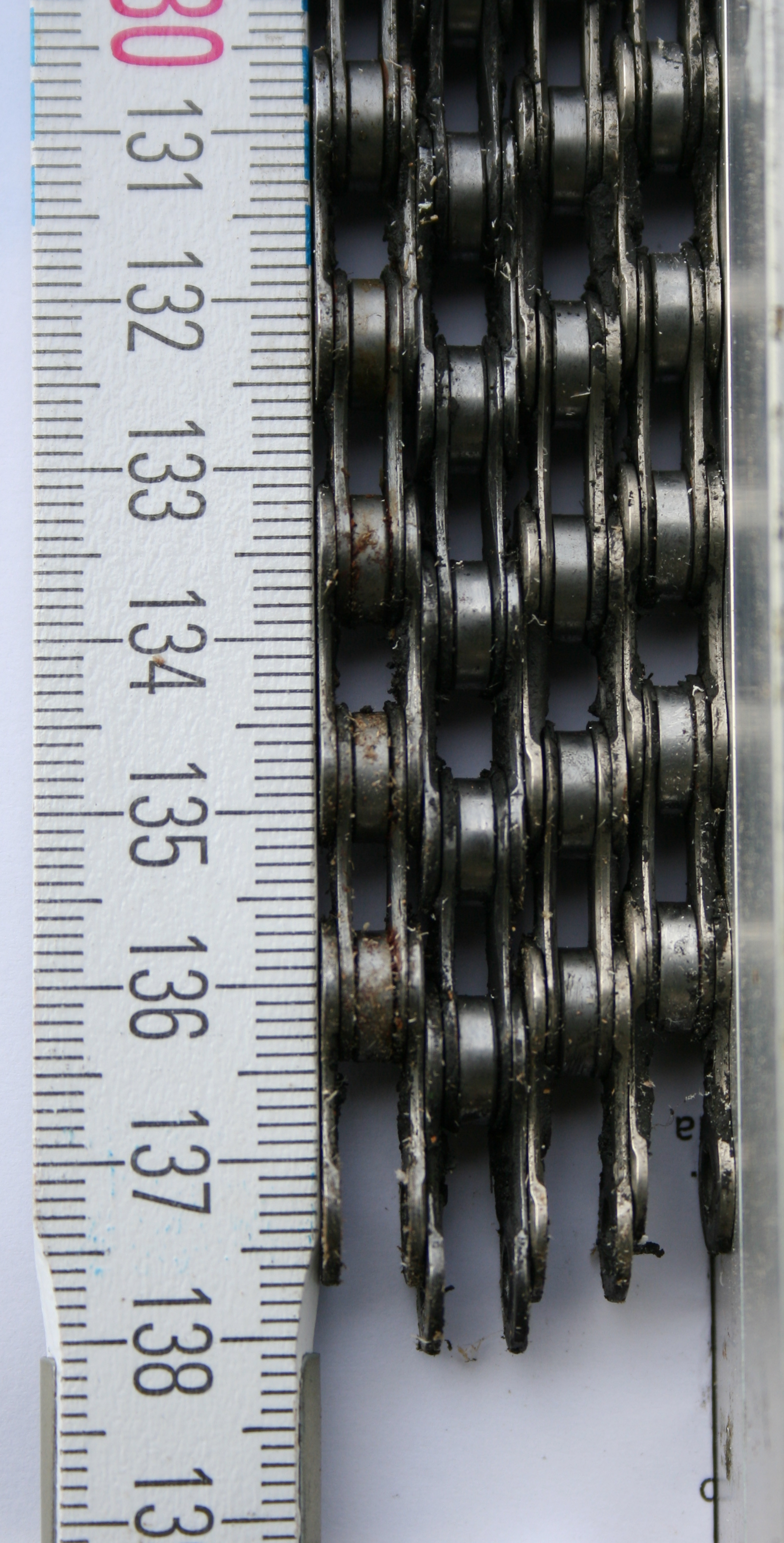 Worn out Bicycle Chains (CN-HG95) with different elongation. (detail; in [cm])